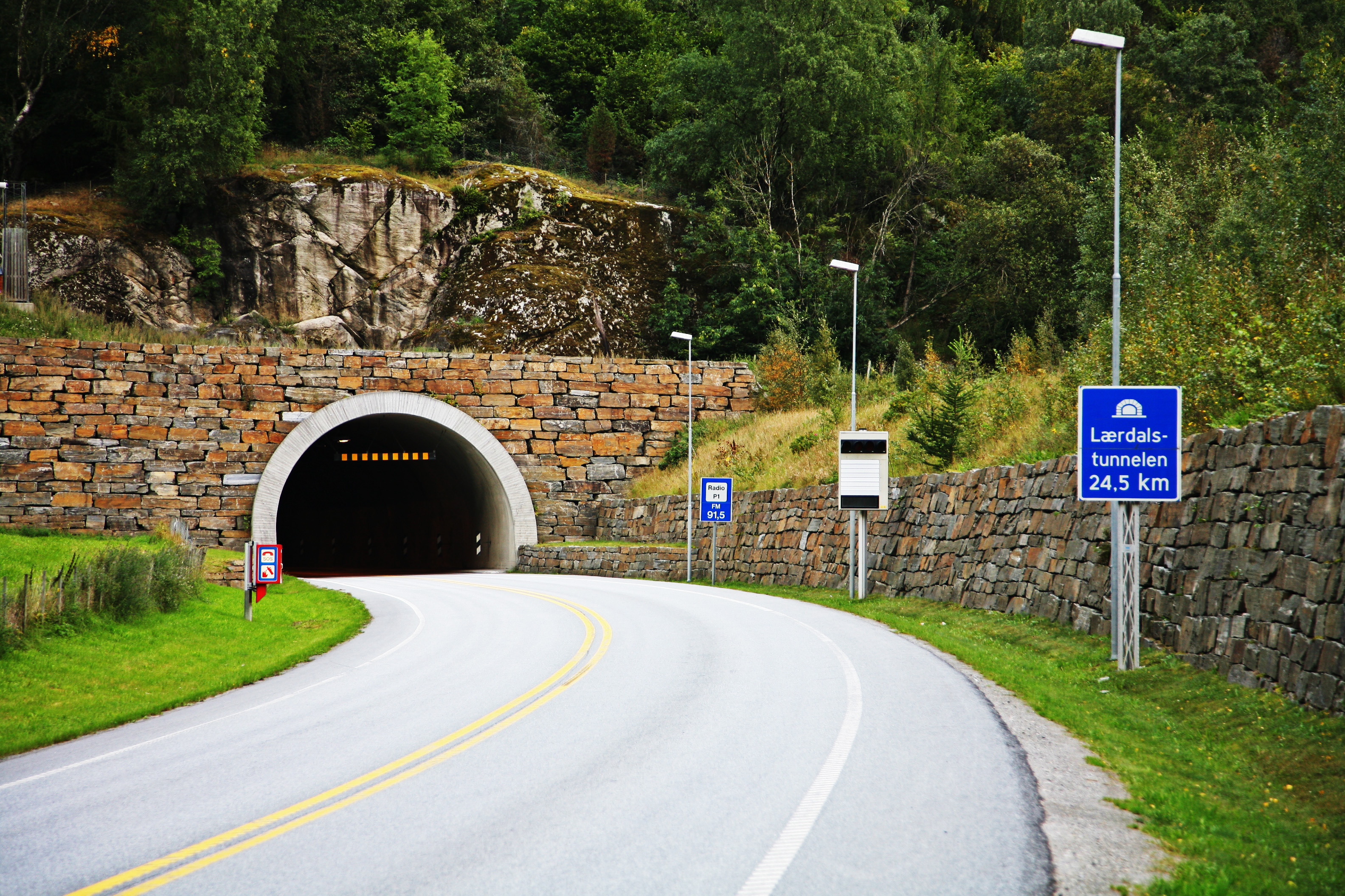 .The Lærdal tunnel in Norway is the longest road tunnels in the world with 24.5 kilometers. It links the towns of Aurlandsvangen in the municipality of Aurland and Lærdalsøyri in the municipality of Lærdal.